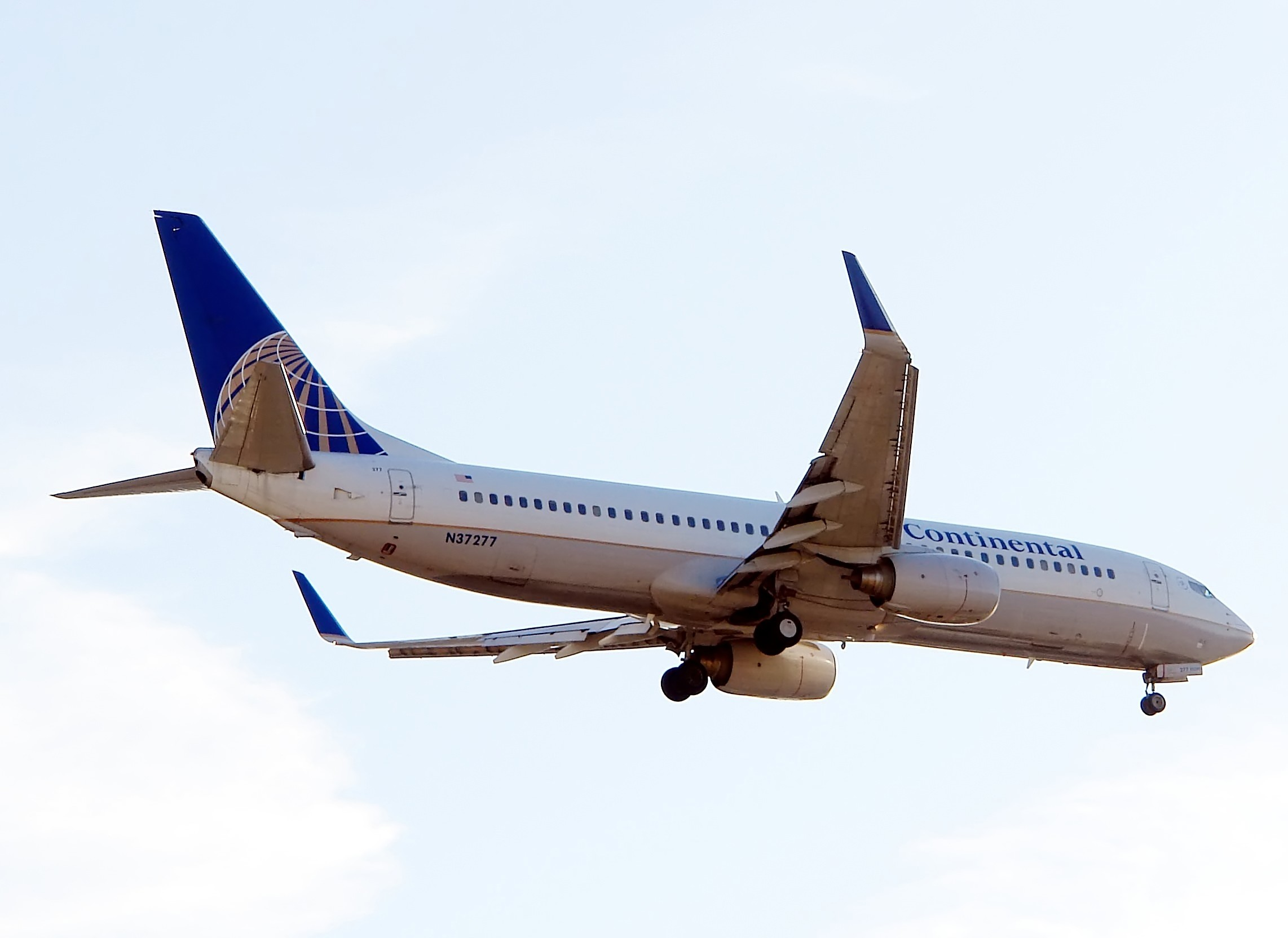 Contiental Airlines - Boeing 737-800 on short final approach.